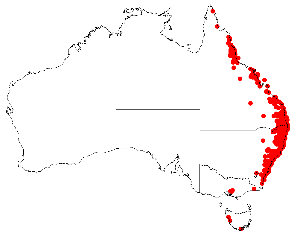 Parsonsia straminea occurrence data downloaded from Australasian Virtual Herbarium on 21 December 2018 from